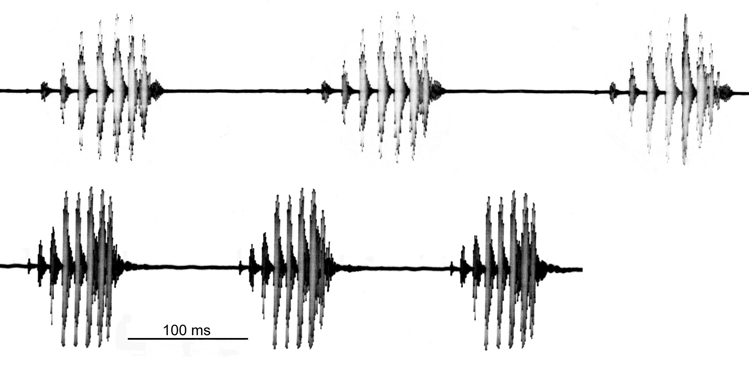 Sound images (oscillograms) of three pulse groups from mating calls of European treefrogs, recorded at 7 degrees Celsius (top) and 15.5 degrees Celsius air temperature (below). The calls were recorded at the Gallikos river near Thessaloniki, Greece. At rising temperature the duration of the pulse groups and the intervals between them decrease.